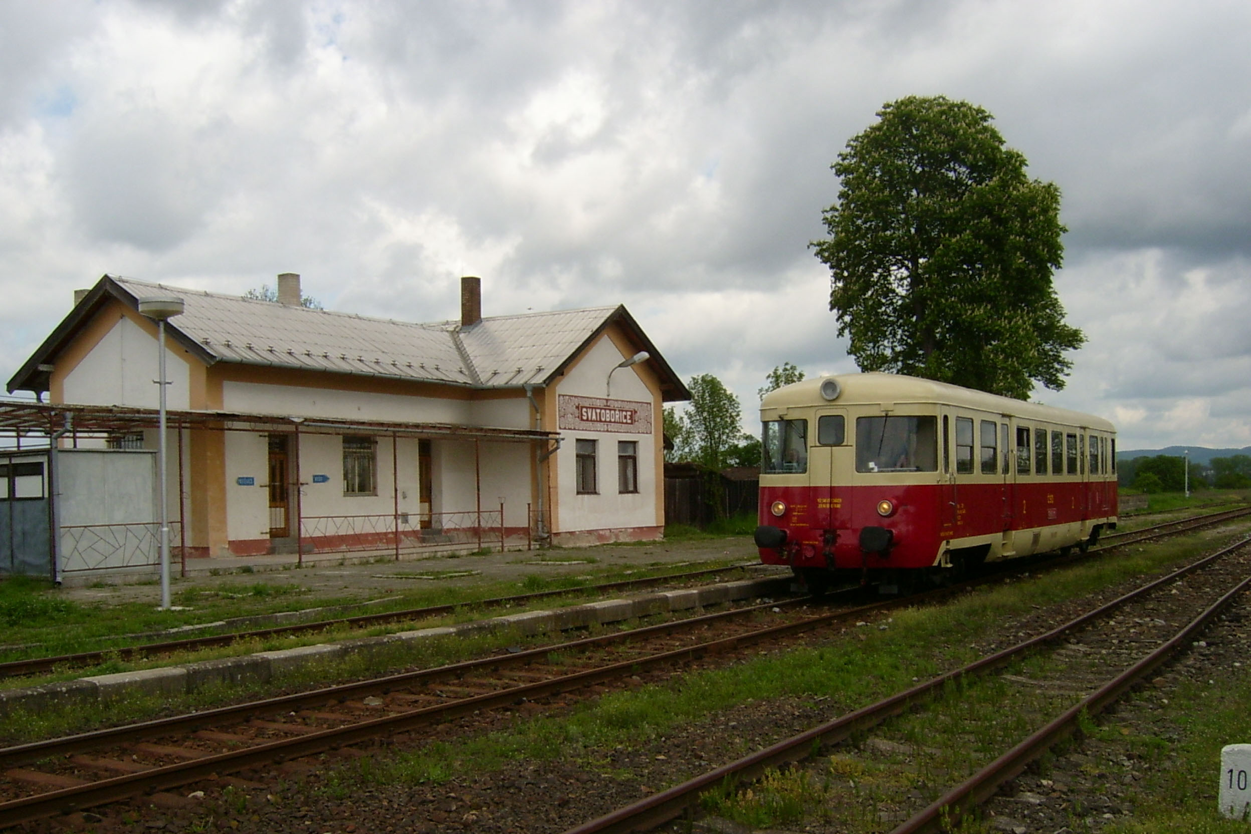 Diesel railcar 240.0113 in Svatobořice station on Kyjov - Mutěnice line in the Czech Republic. This line was once essential for a transport of lignite from nearby mines, but lost its importance after closure of the mines in early 1990s and no trains run here since December 2004. The state railroad administration, however, has to maintain it in operable condition due to legal requirements. The train in the picture was organized for a railfan tour along disused lines in Southern Moravia.